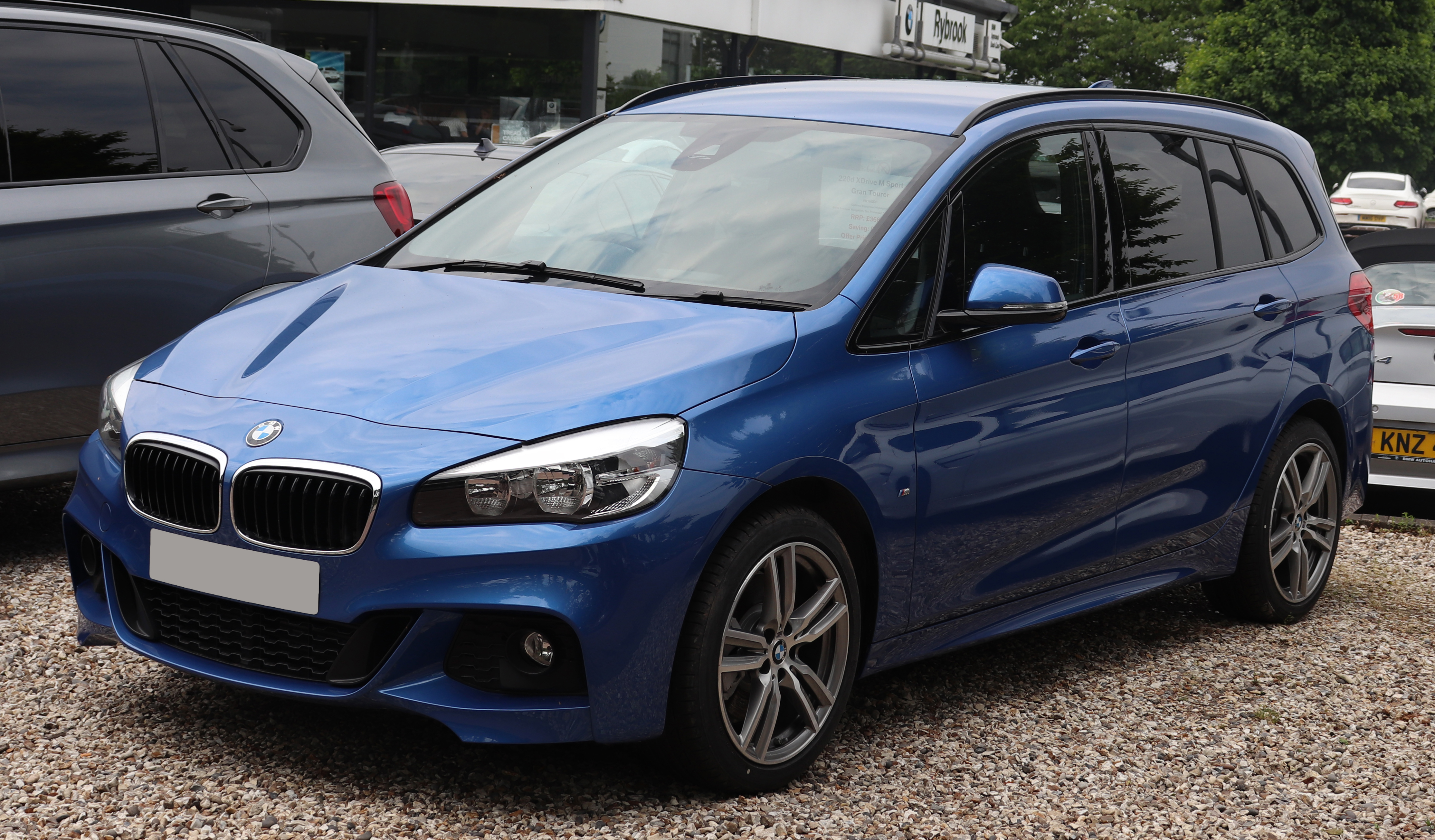 2018 BMW 220d Gran Tourer xDrive M Sport Automatic 2.0 Front Taken in Rybrook BMW Warwick